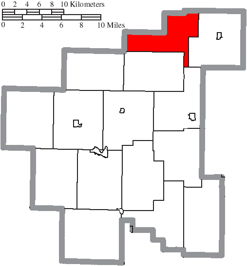 Map of the municipal and township boundaries of Noble County, Ohio, United States, as of the 2000 census, with the location of Wayne Township highlighted. Township borders are shown only in unincorporated areas in order to differentiate incorporated and unincorporated areas more clearly.